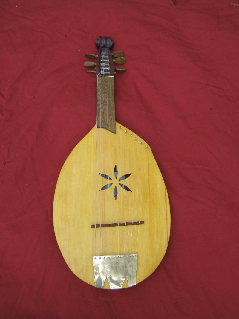 Kobza by Olexander Kit